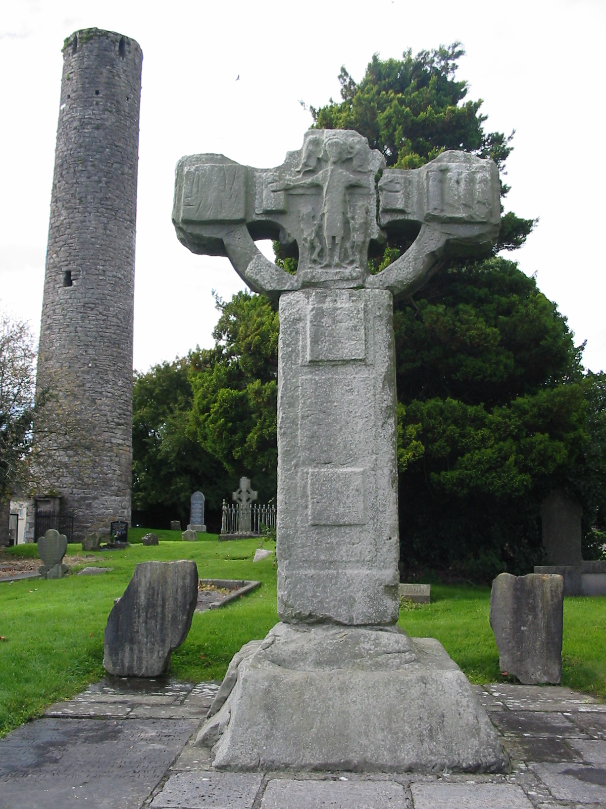 The Unfinished Cross is one of the five high crosses in Kells, County Meath, Ireland. It is unfinished because the Vikings made off with the craftmen, before they had carved the panels. This is the eastern face. Behind, we see the Round Tower from the 10th, with its 6 floors and 26 meters high.